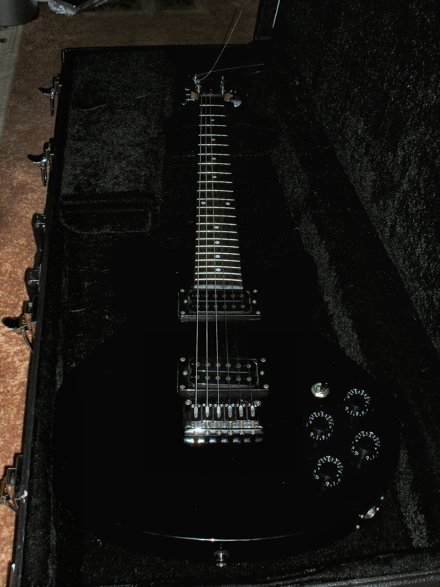 Washburn WI-14 in a suitcase.